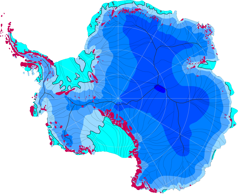 Principle drawing of the size and structure of the Antarctic ice sheet during an interglacial, comparable to the recent stage. (Sketch von Ausdehnung und Struktur des antarktischen Eisschildes in einer Warmzeit - vergleichbar mit dem heutigen Zustand). thick lines: ice divide (dicke Linien: Eisscheide) thin lines: ice flow lines (dünne Linien: Fließlinien) turquoise areas: ice shelf (türkisfarben: Schelfeis) red areas: not ice covered (2.8 % of total area) (rote Bereiche: nicht von Eis bedeckt) blue shaded areas increment by 1000 m in thickness (dunkler werdende Blautöne zeigen die Eisdicke in Schritten von 1000 m)